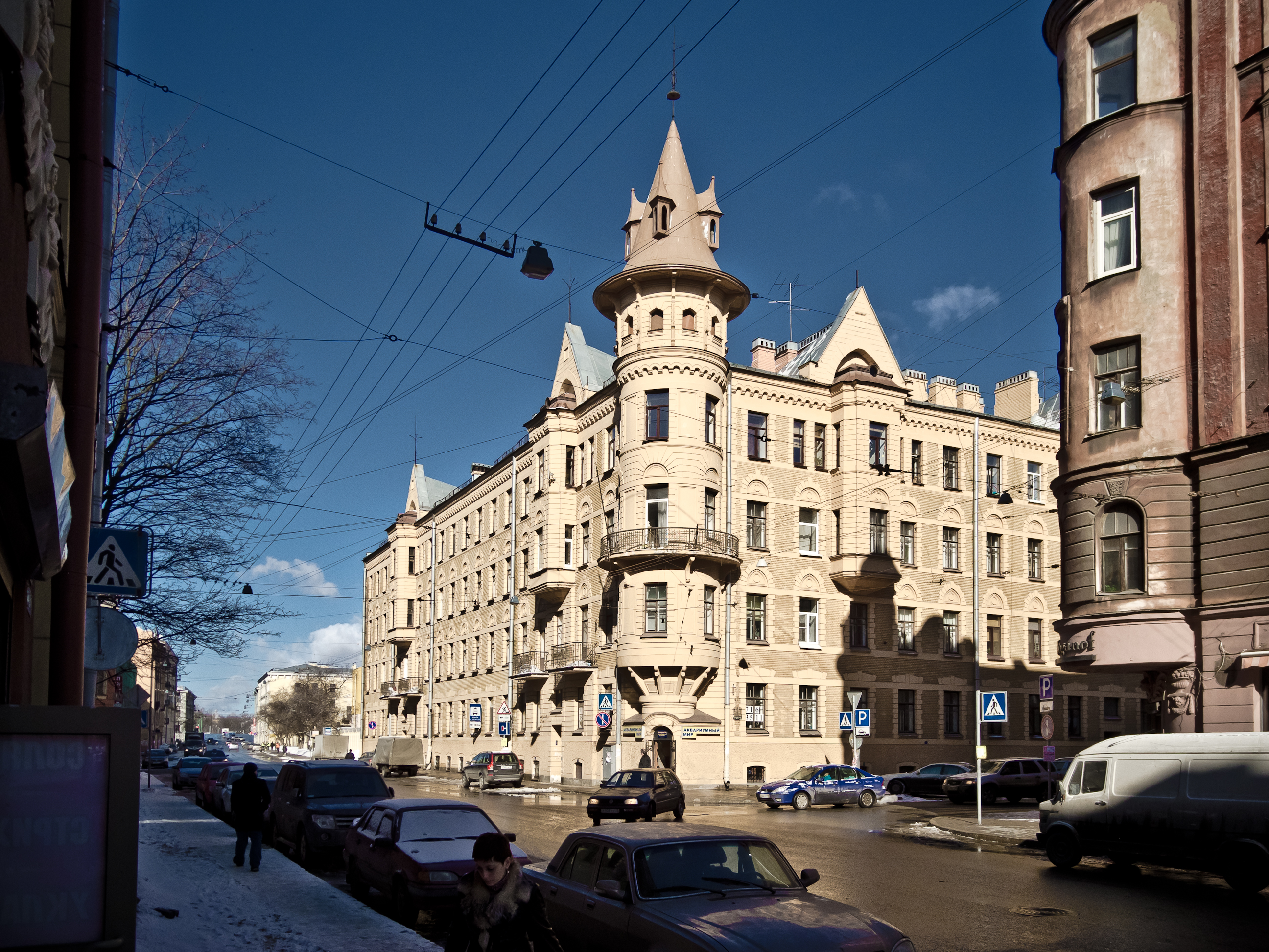 Keibel's rent house in Saint Petersburg